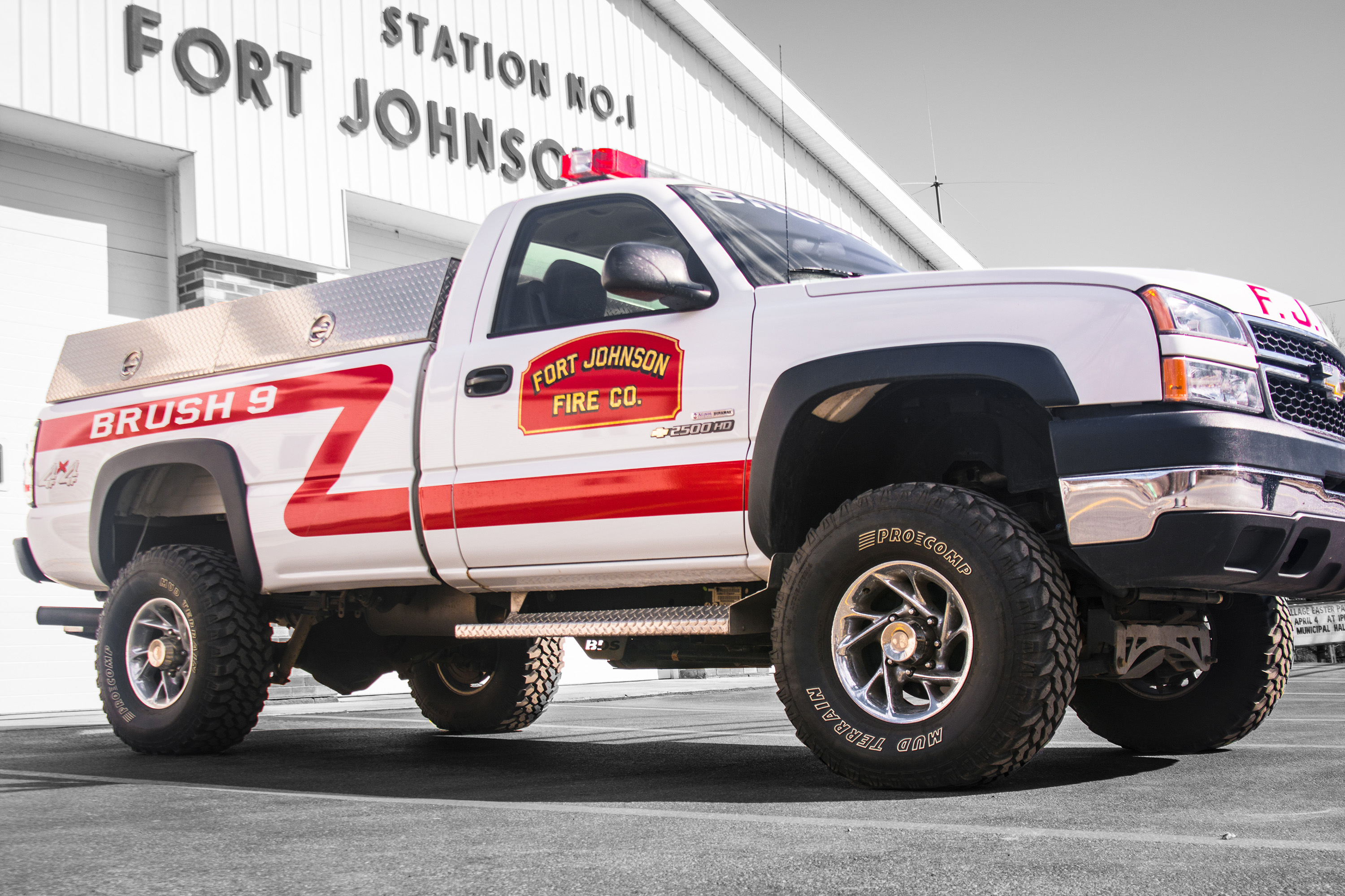 A brush truck for the Fort Johnson Fire Company.